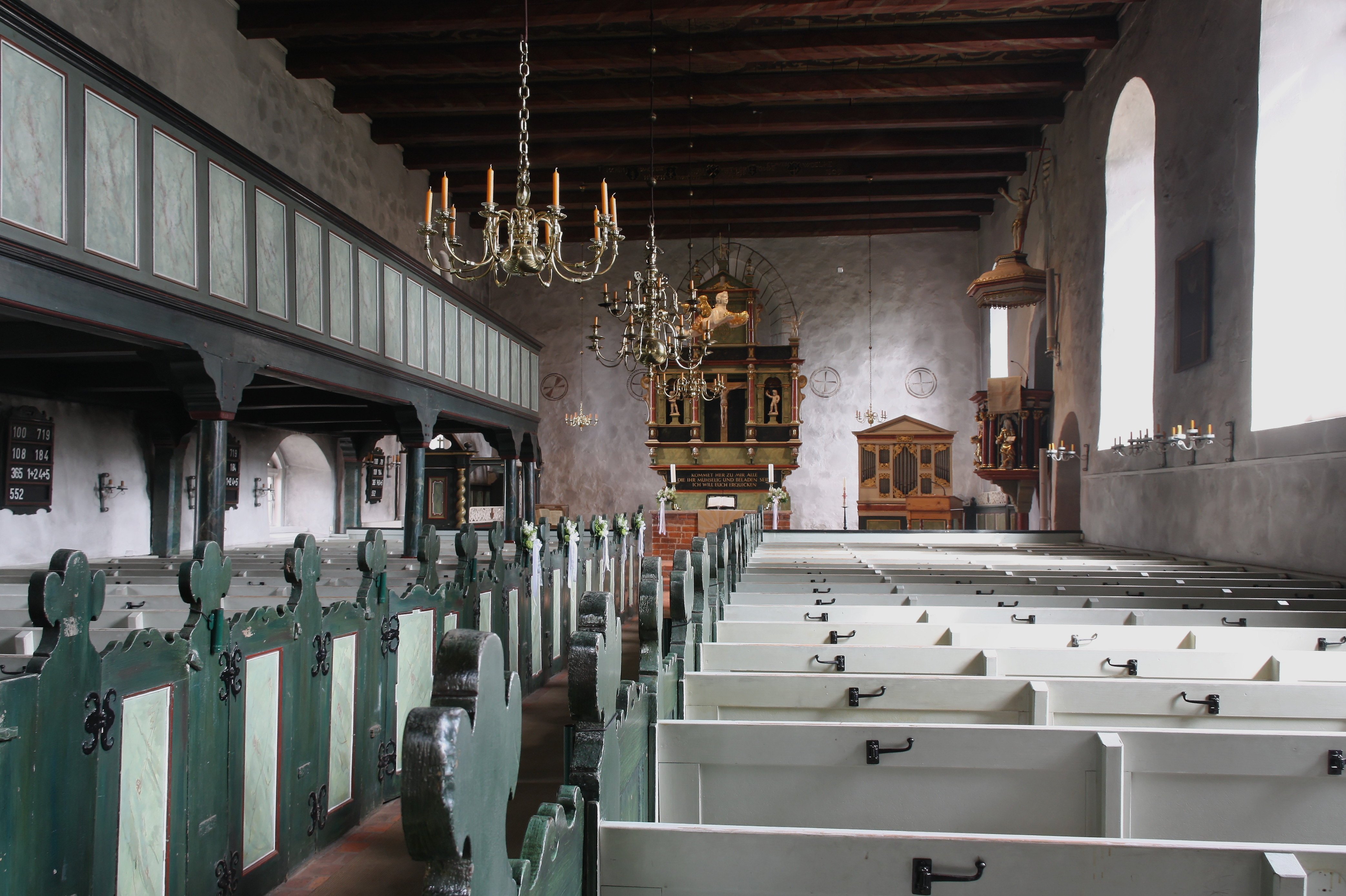 Church in Hamburg-Bergstedt, main room